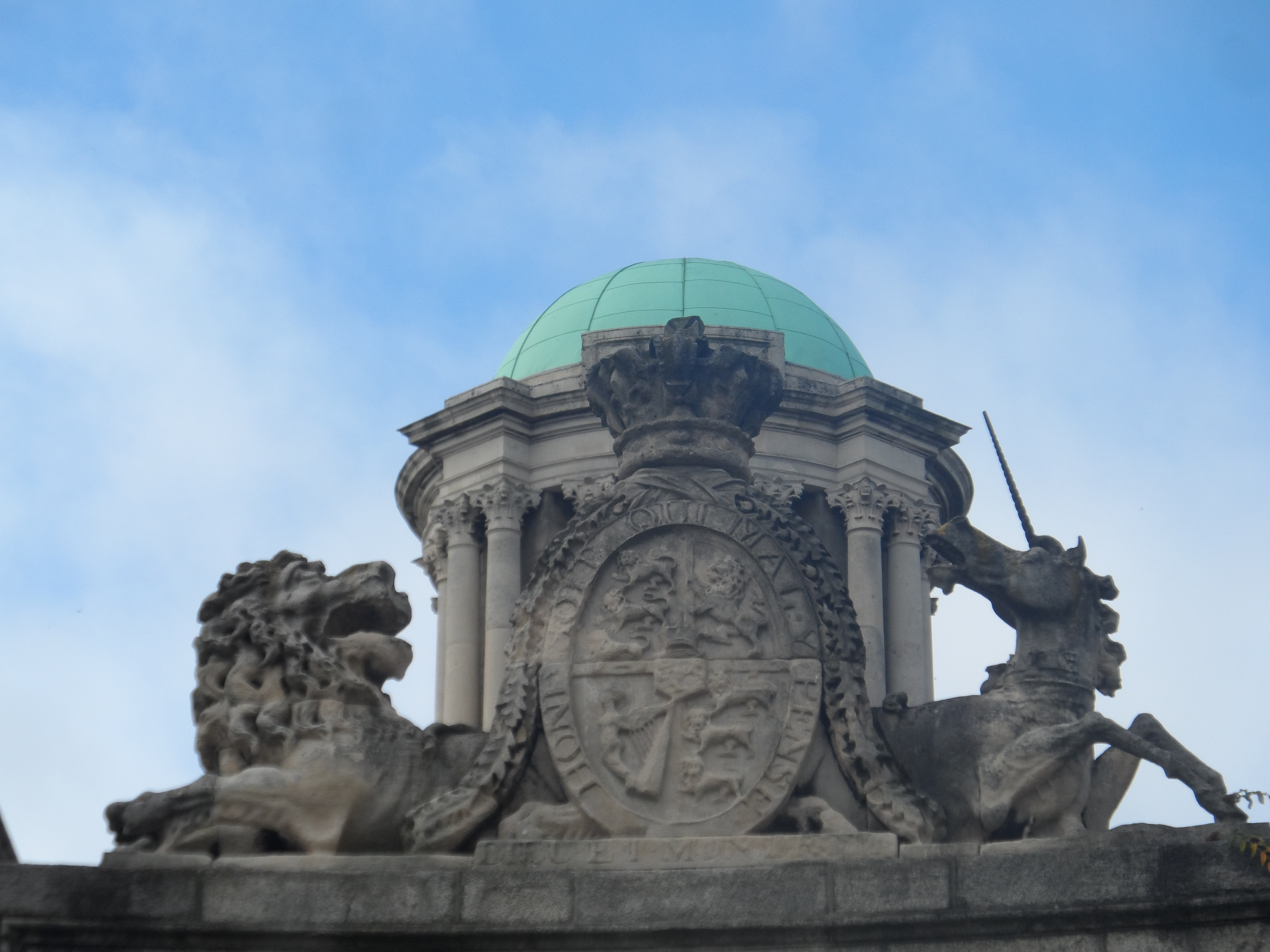 Royal Arms of Ireland, King's inns